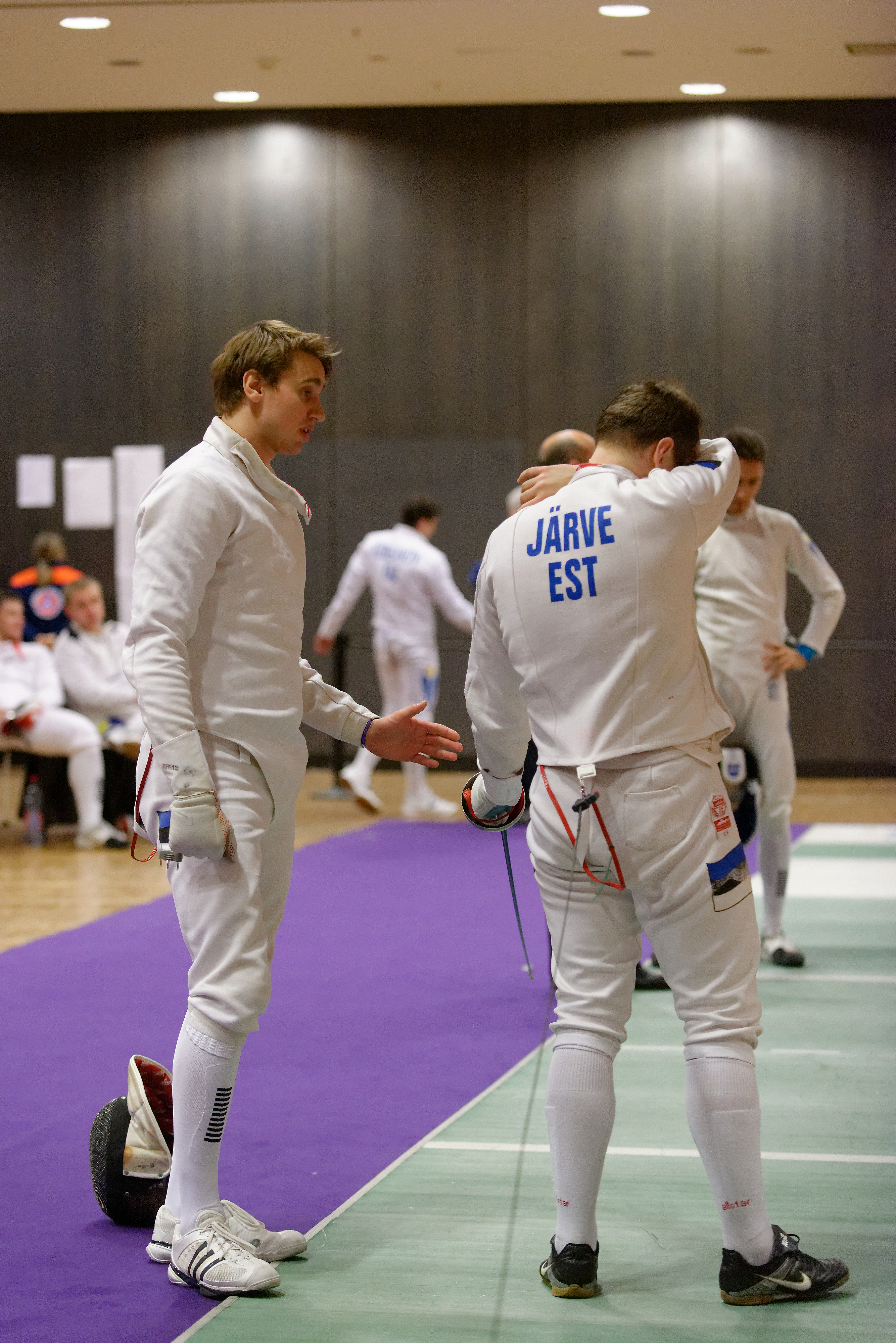 Estonian team captain Nikolai Novosjolov talks to his team mate Sven Järve as he is about to fence against Kazakhstan's Elmir Alimzhanov in a T32 team match of the Challenge Réseau Ferré de France–Trophée Monal 2013, a men's épée FIE World Cup competition.